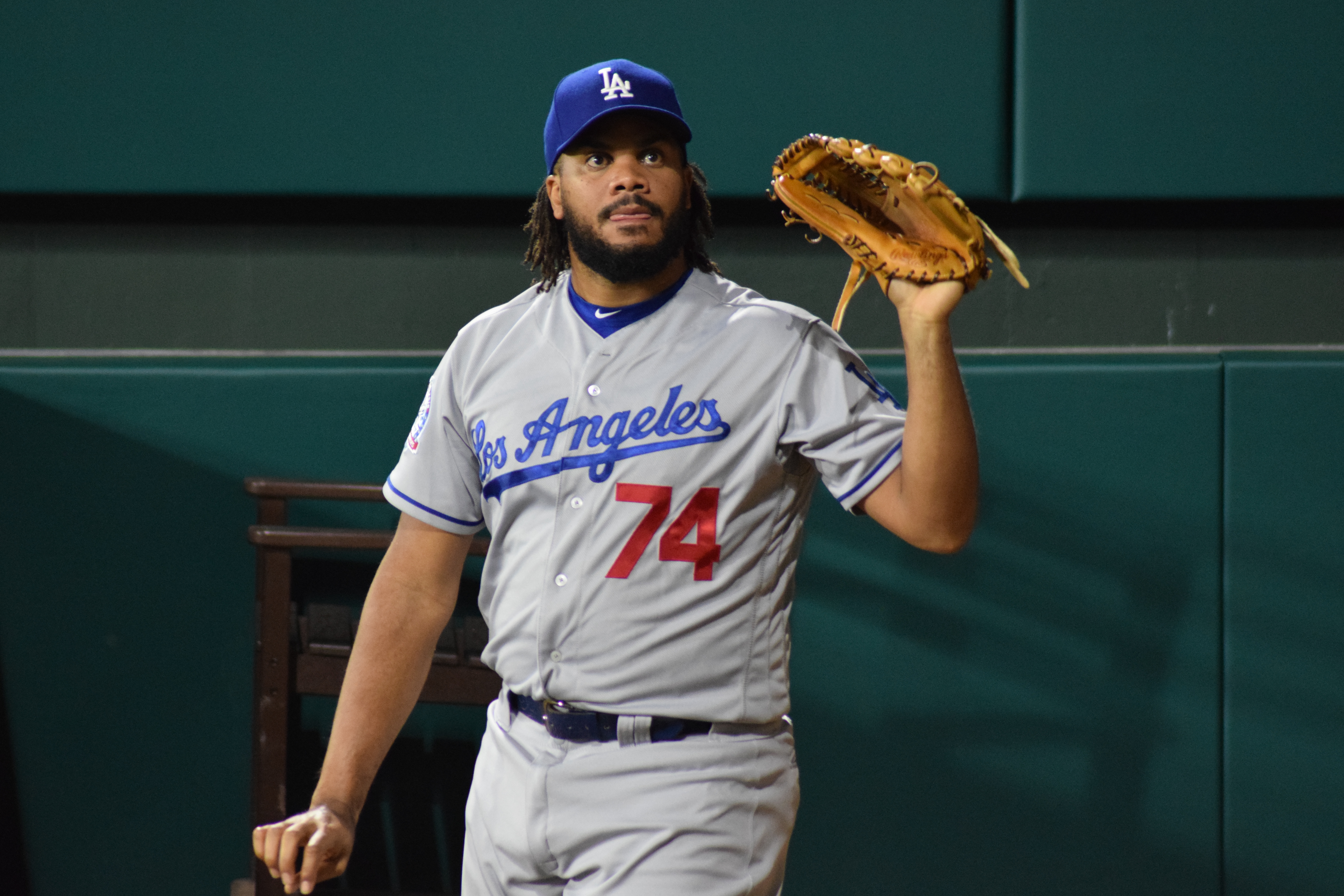 Los Angeles Dodgers closer Kenley Jansen